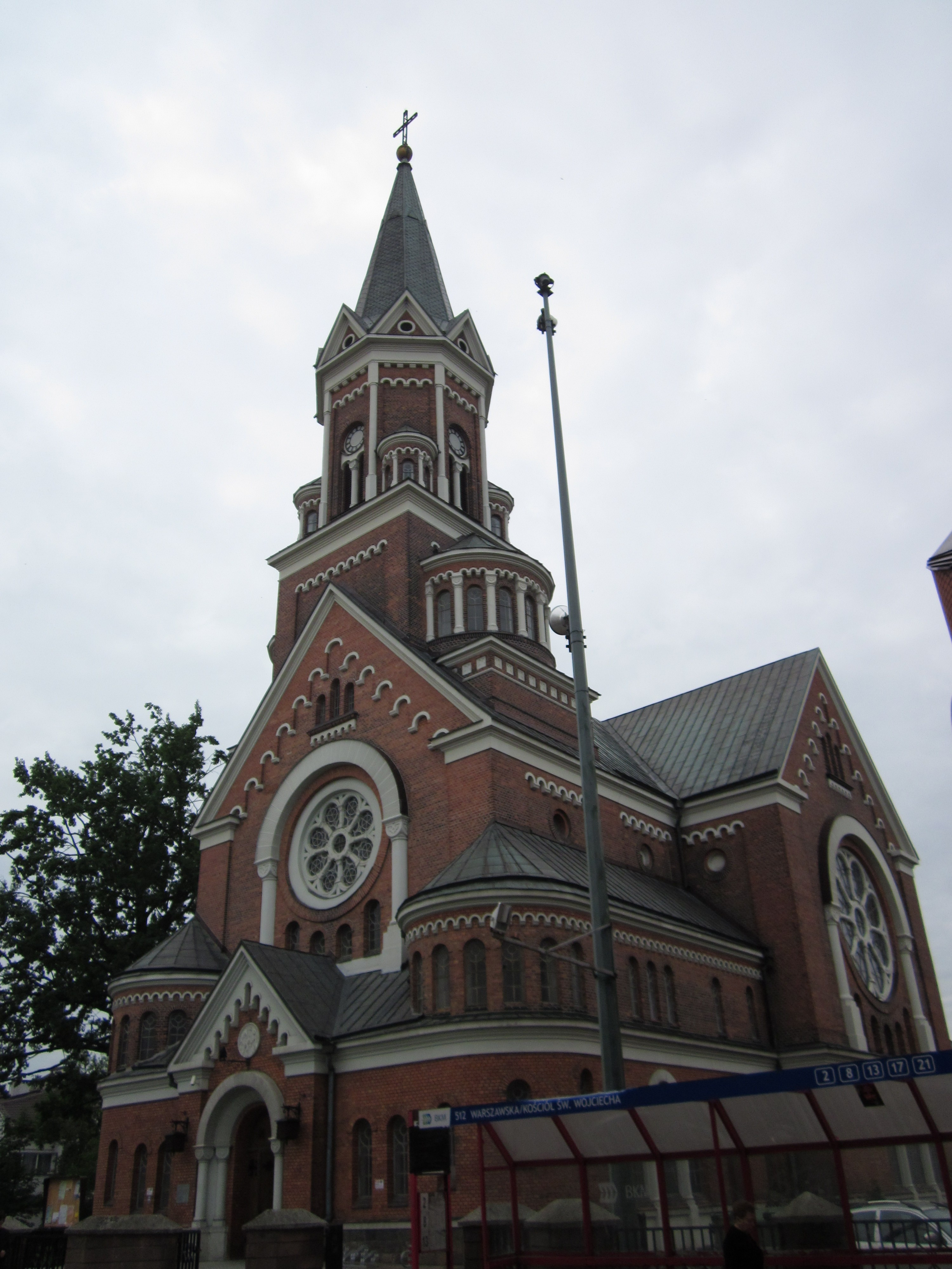 Rosette of the Church of St. Albert in Białystok